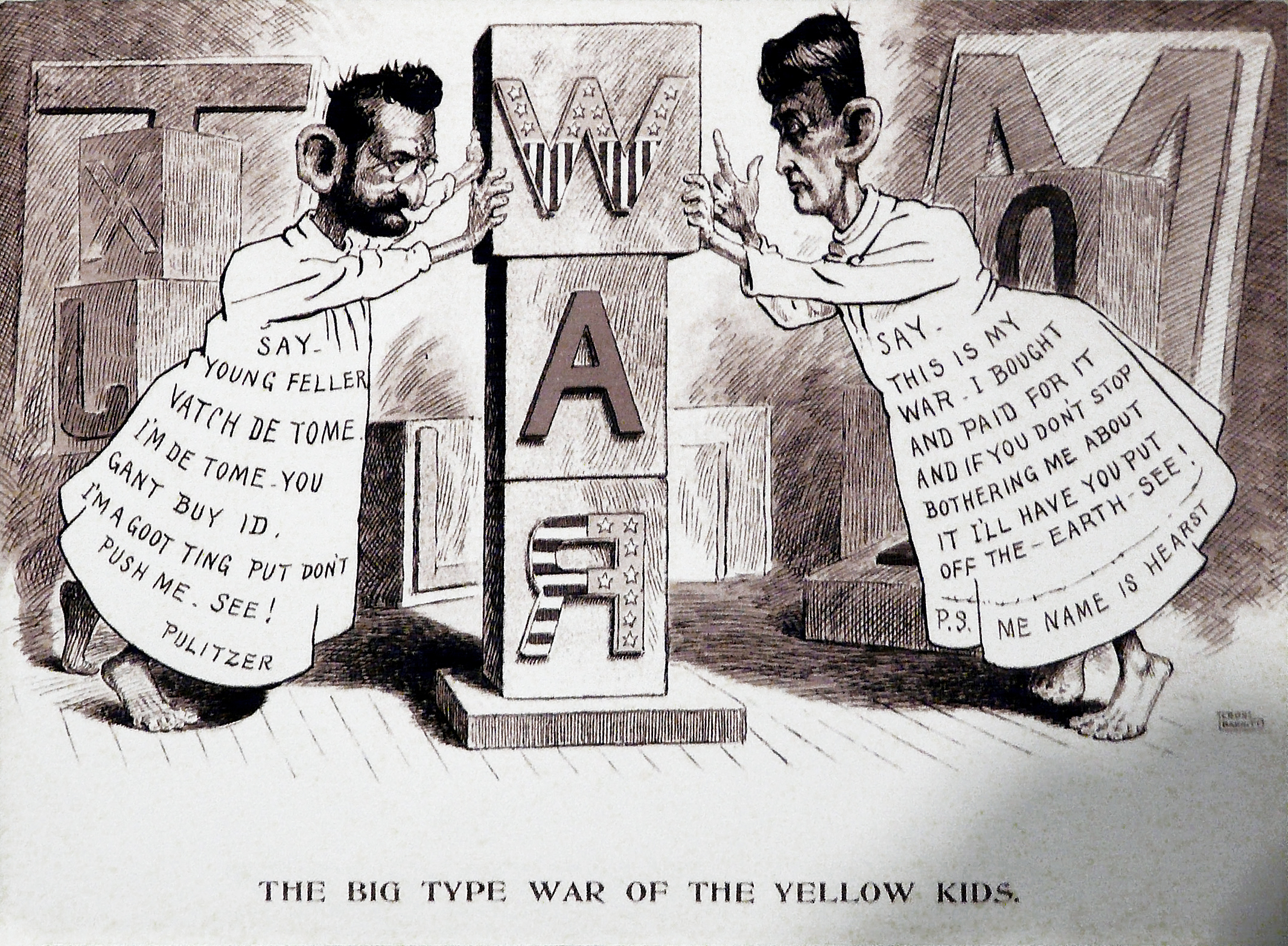 "Yellow journalism" cartoon about Spanish-American war of 1898; the newspaper publishers Joseph Pulitzer and William Randolph Hearst are both attired as the Yellow Kid comics character of the time, and are competitively claiming ownership of the war...